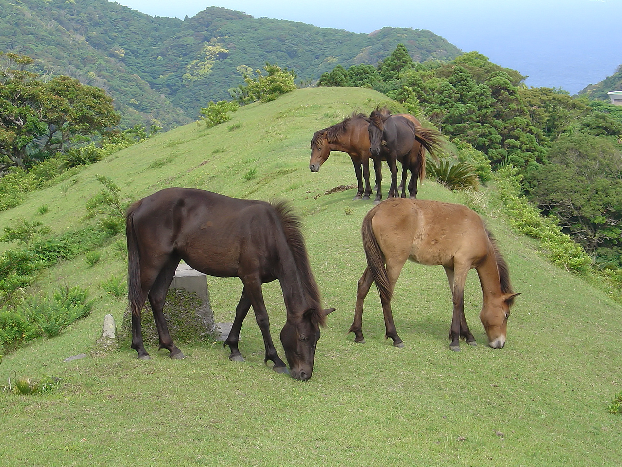 Misaki-uma, Taken at Kushima City, Miyazaki Prefecture, Japan.